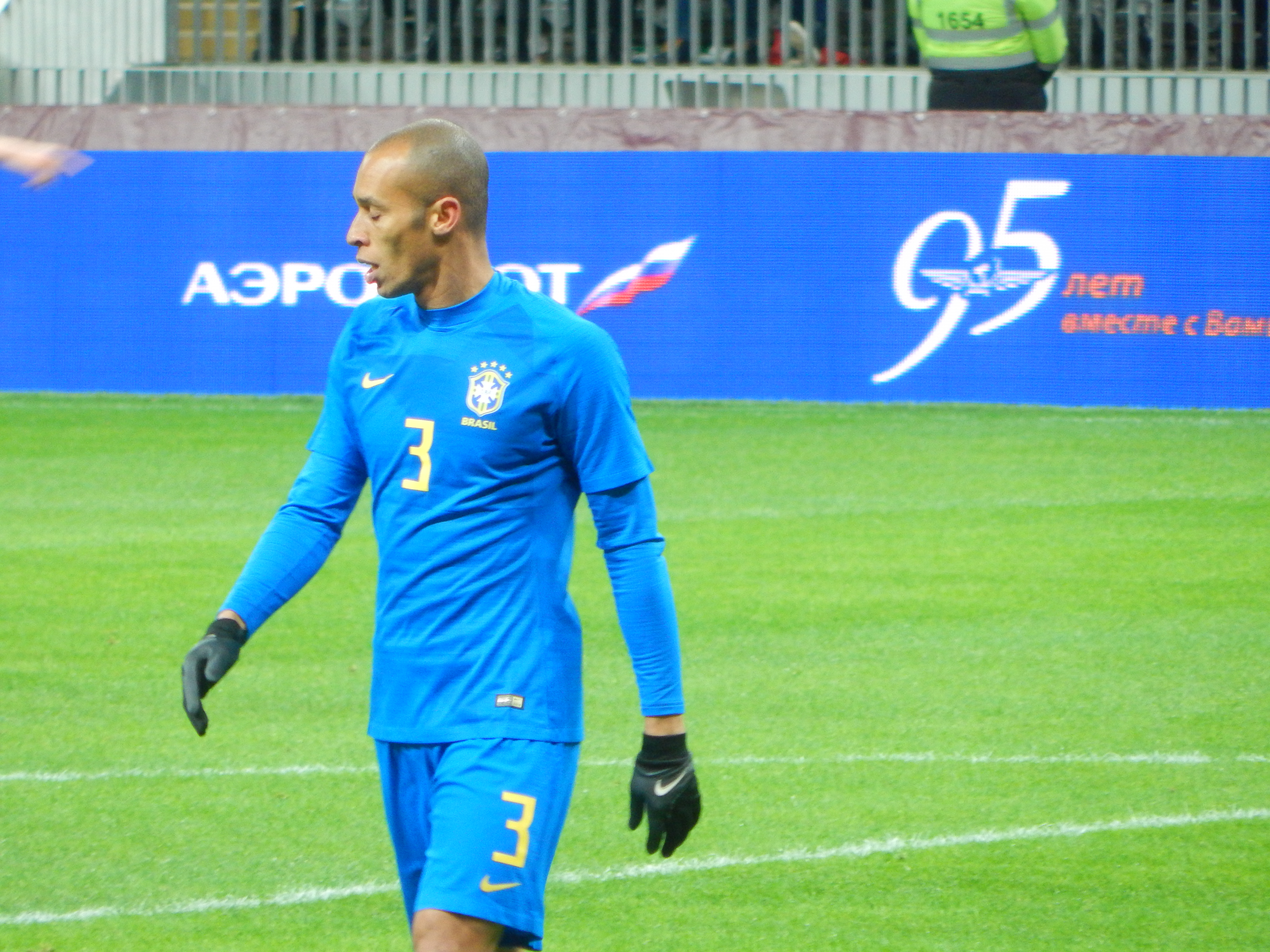 Exhibition match Russia vs. Brazil, March 23, 2018. Miranda (Brazil)